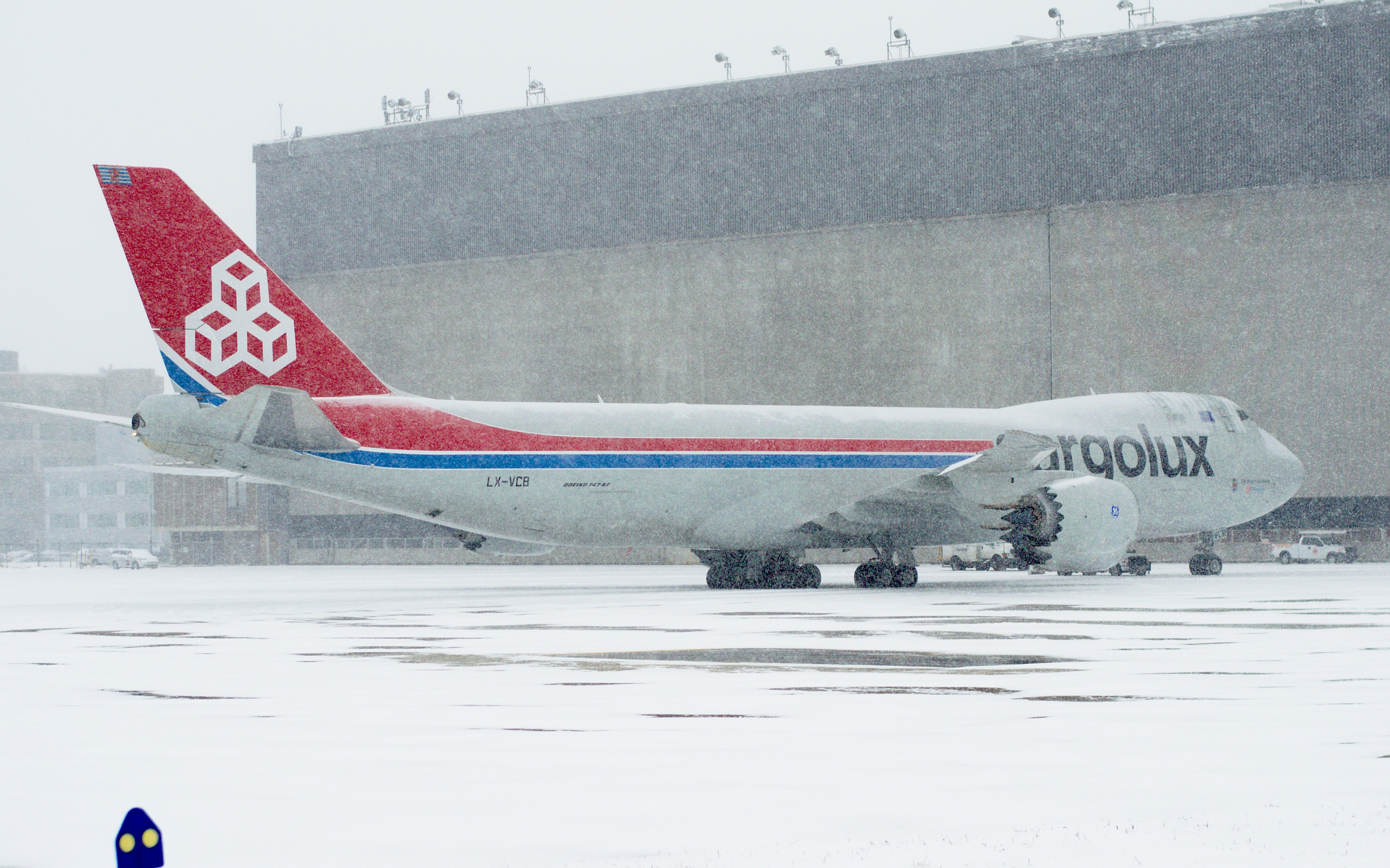 Boeing 747-8 at the Air Canada base at Montreal in January 2013